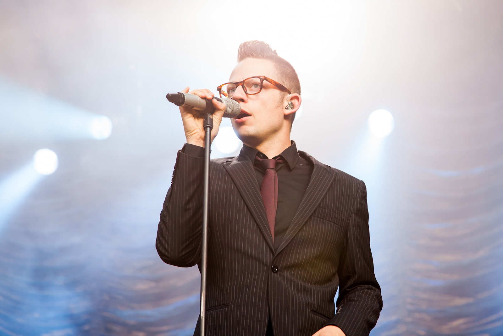 Jarle Bernhoft live at Odderøya Live 2012